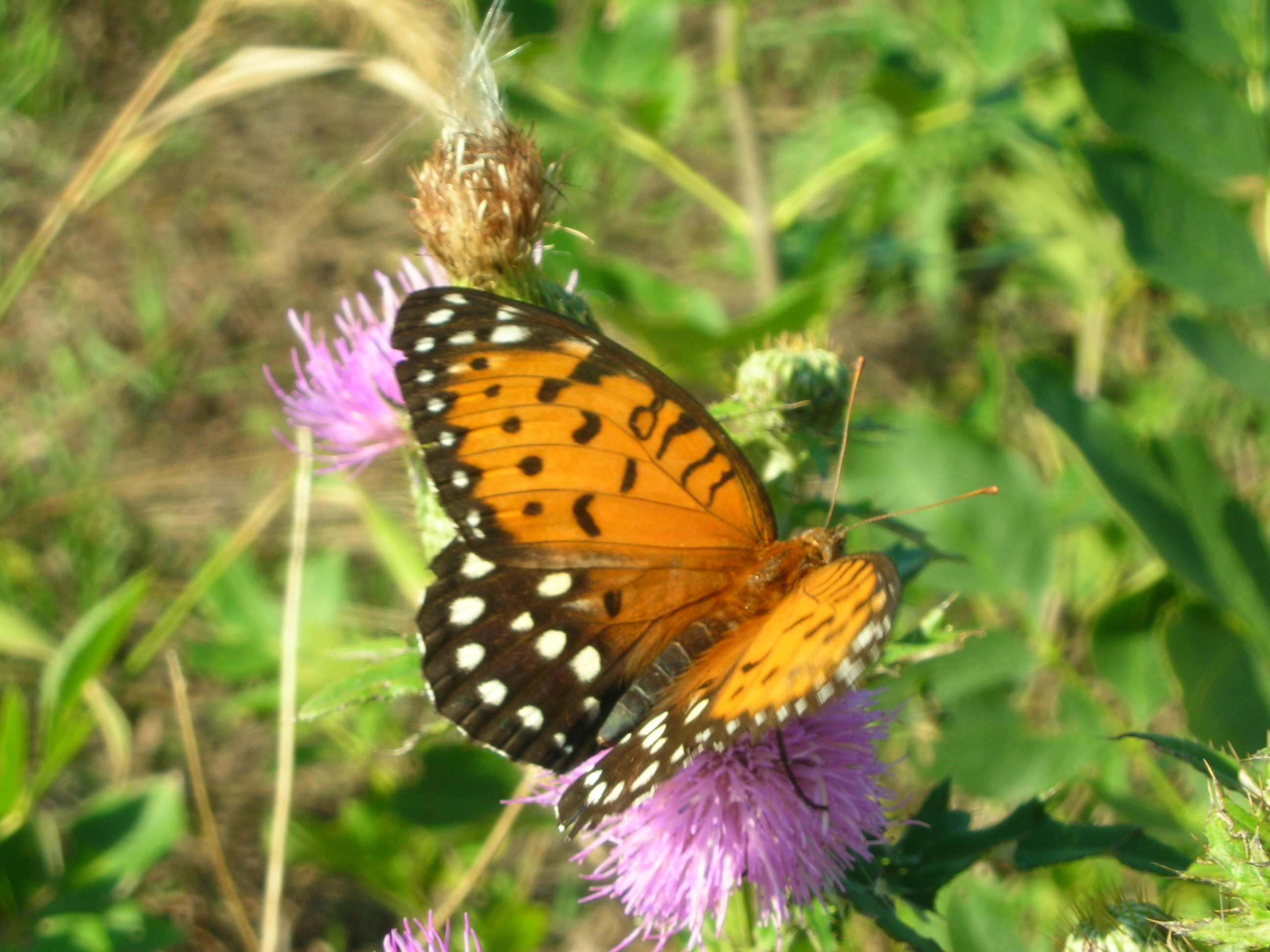 Female Regal Fritillary at Spring Creek Prairie Audubon Center near Denton, NE Author: Sarah Bailey (my own work)